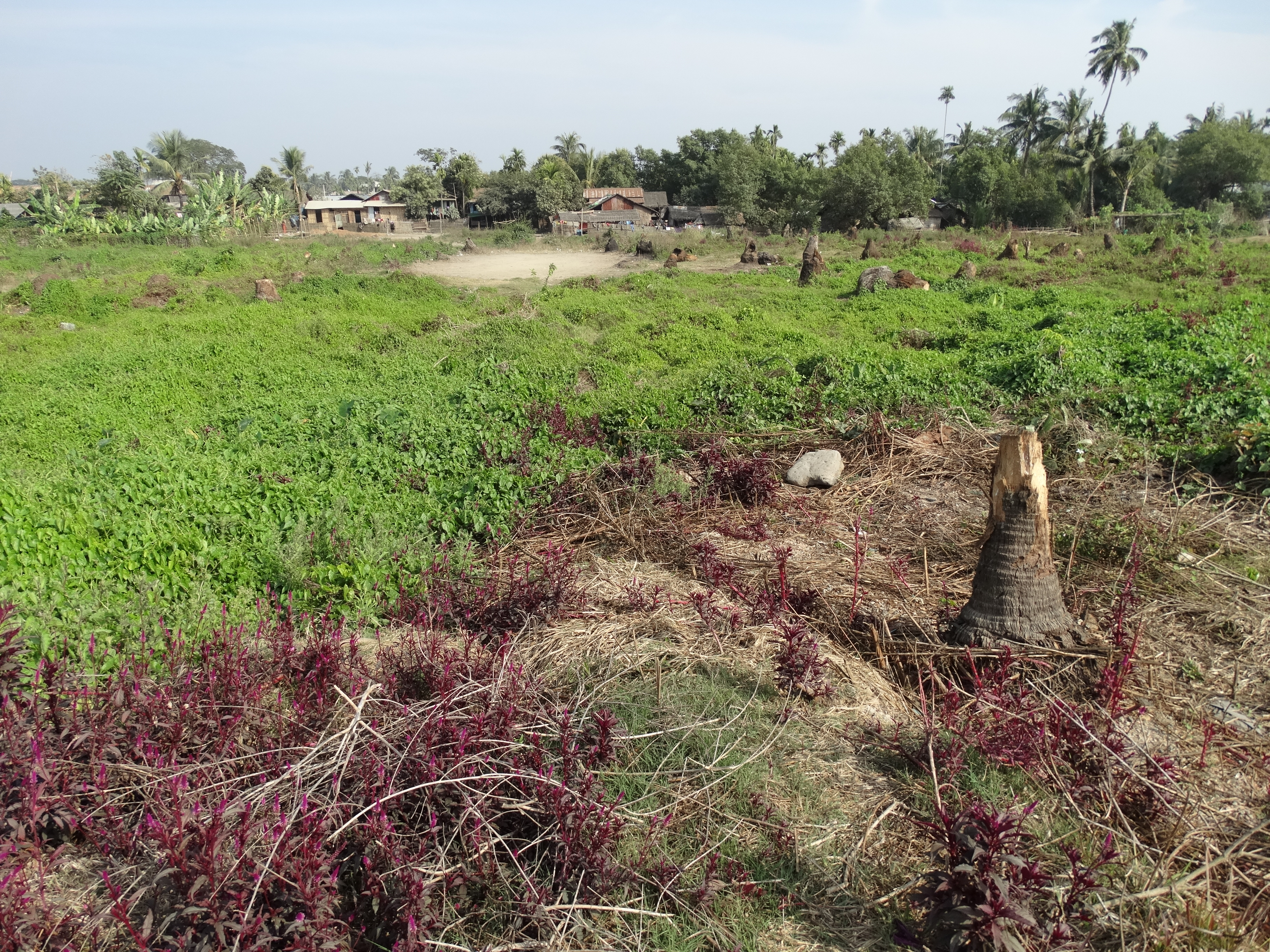 View of Ruins of Narzi - Rohingya Village Burned and Bulldozed in 2012 - Sittwe - Rakhaing (Arakan) State - Myanmar (Burma) - 01